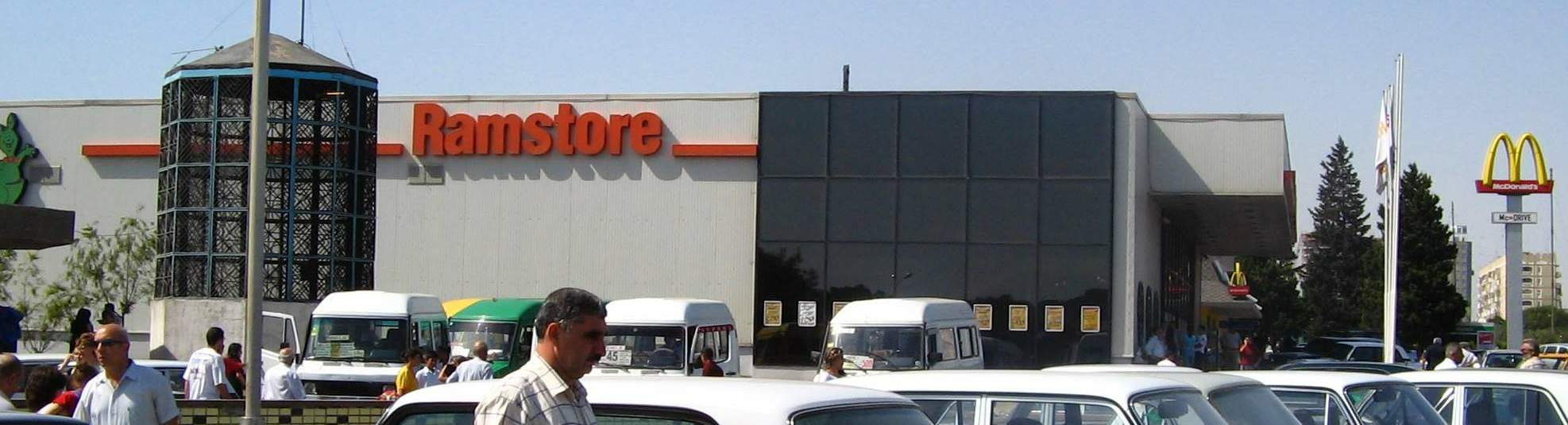 One of Ramstore supermarkets in Baku, Azerbaijan